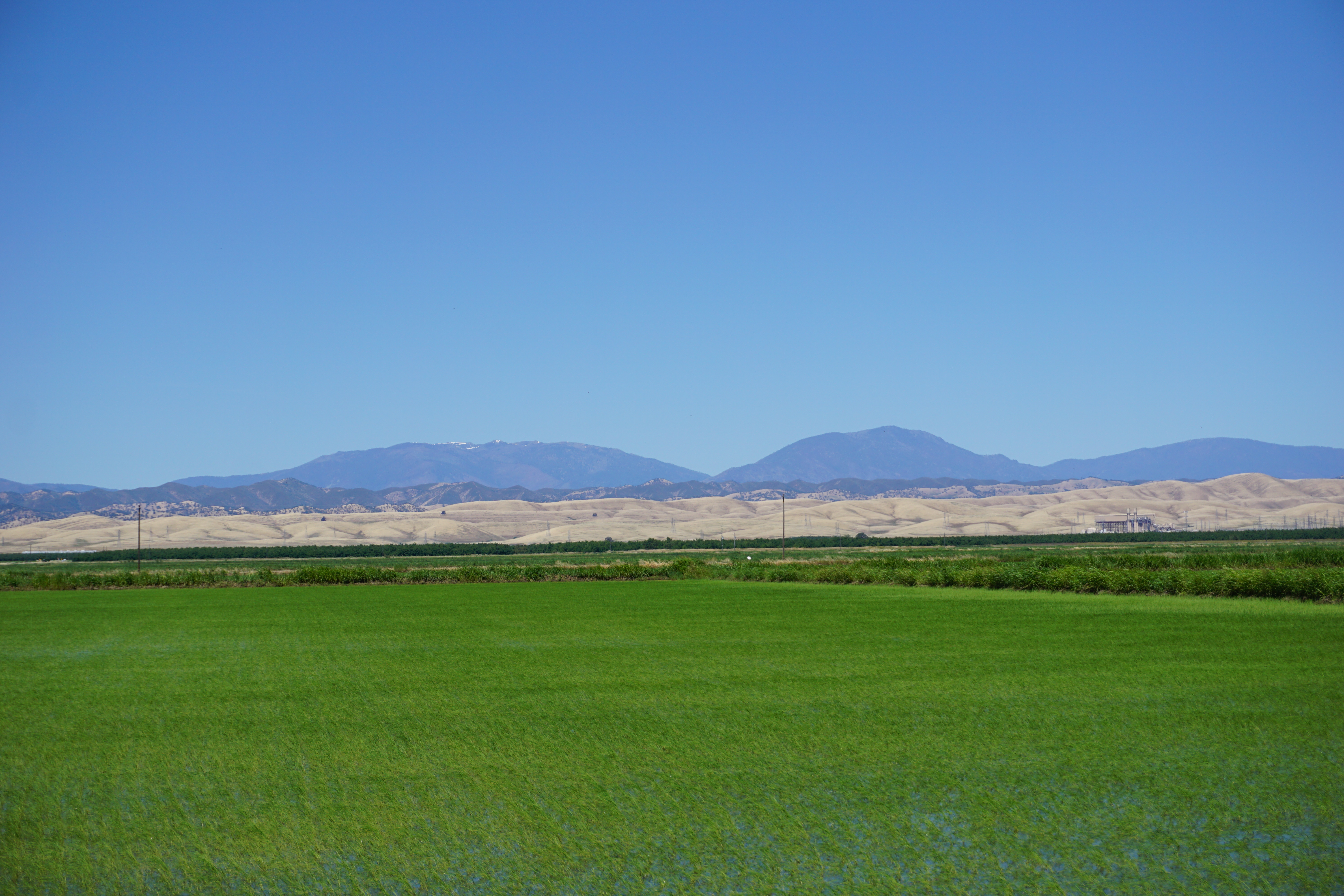 This is a view looking west on I-5 in the Sacramento Valley near the town of Maxwell, near the Colusa/Glenn County line